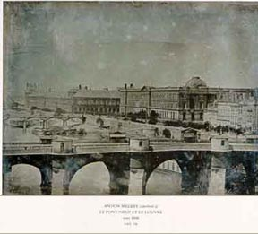 Early photograph (daguerreotype) of the Pont Neuf and the Louvre in Paris taken by Danish artist Anton Melbye in 1848